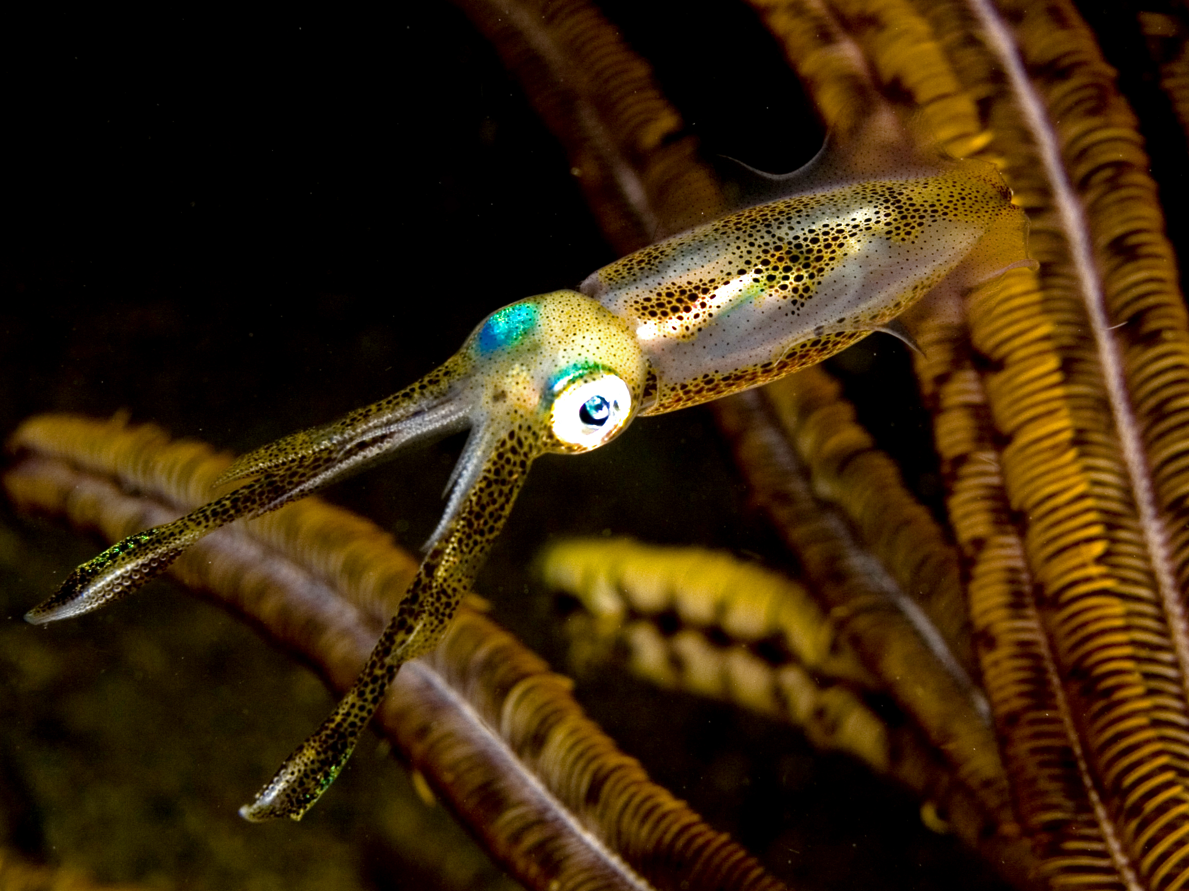 Sepioteuthis lessoniana (Bigfin reef squid). These squid are very curious and attracted to dive lights at night.